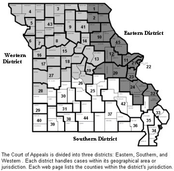 OSCA Jurisdictional Map